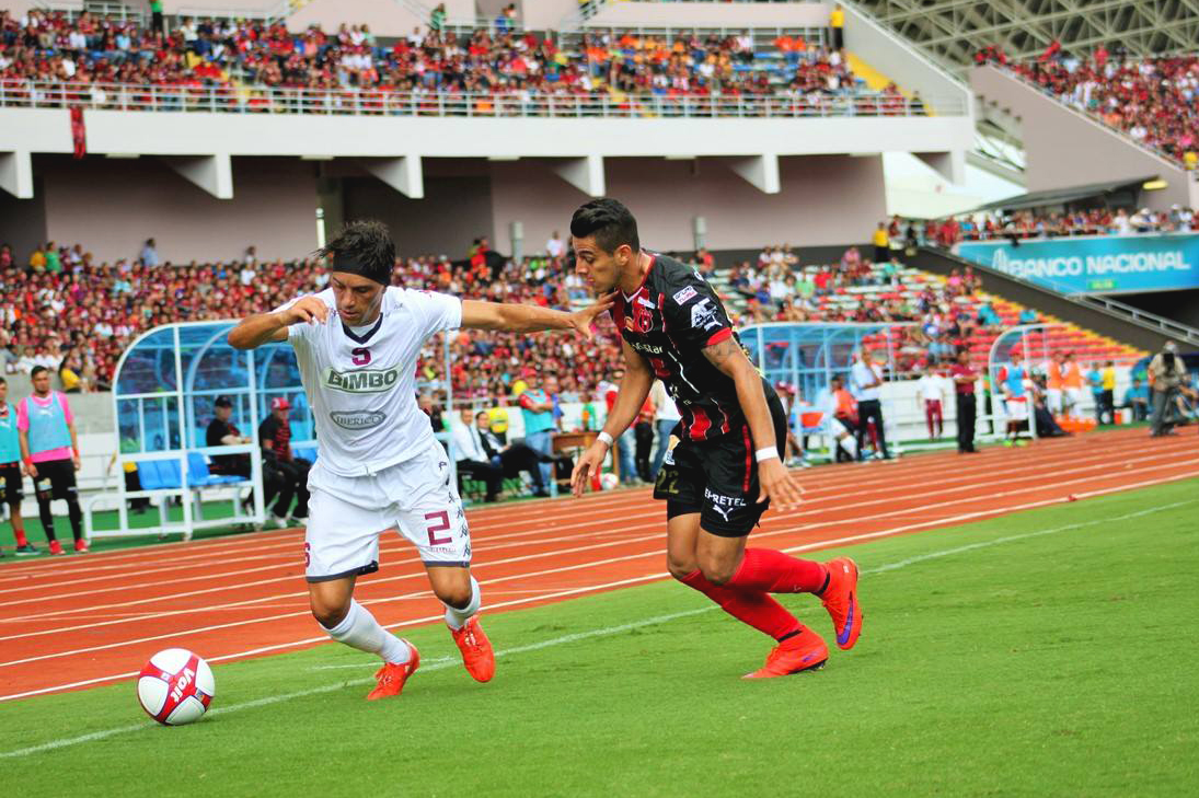 Ronald Matarrita against Christian Bolaños on November 8, 2015.